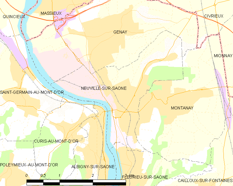 Map of French municipality